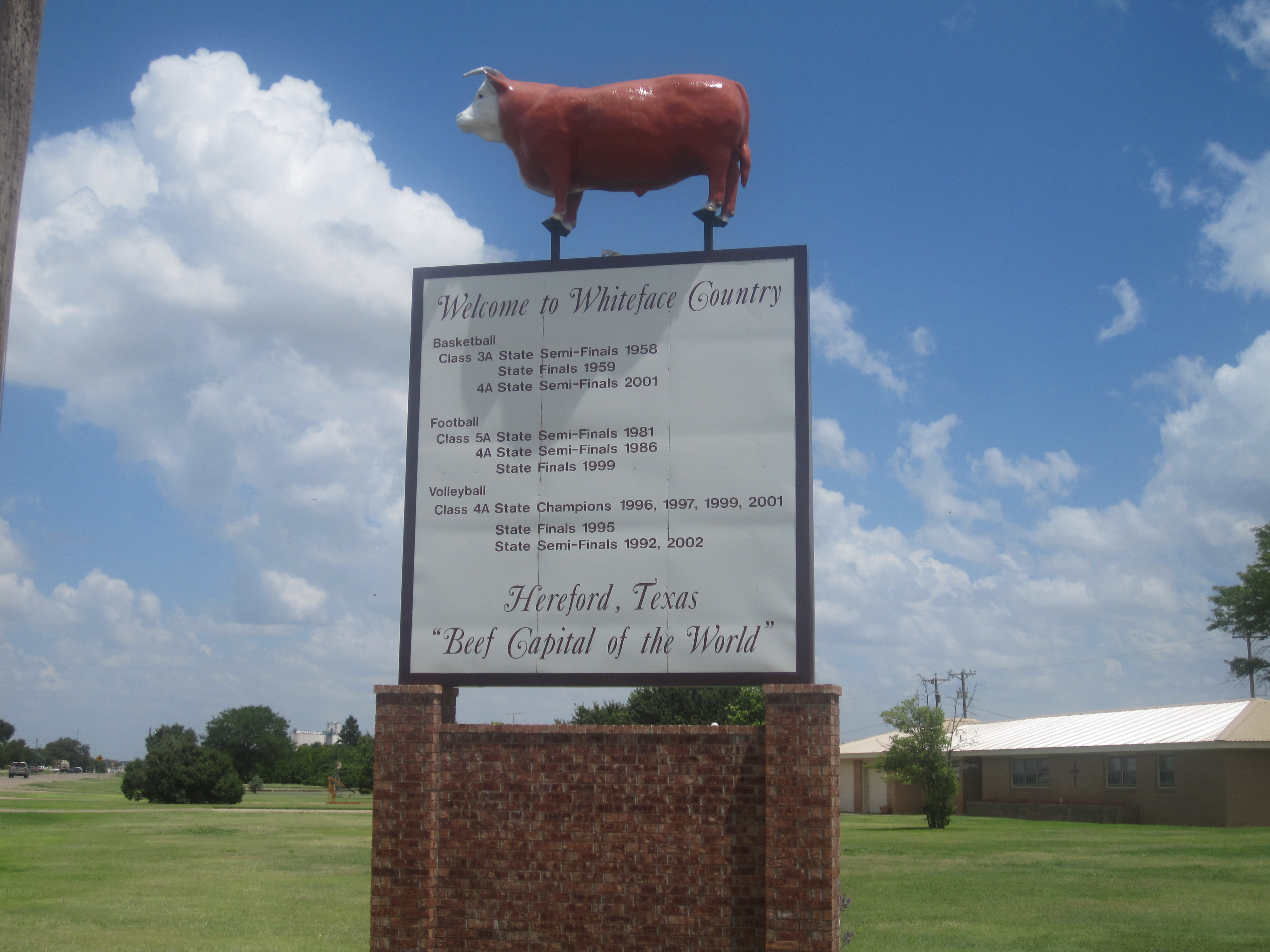 I took photo in Hereford, TX, with Canon camera.